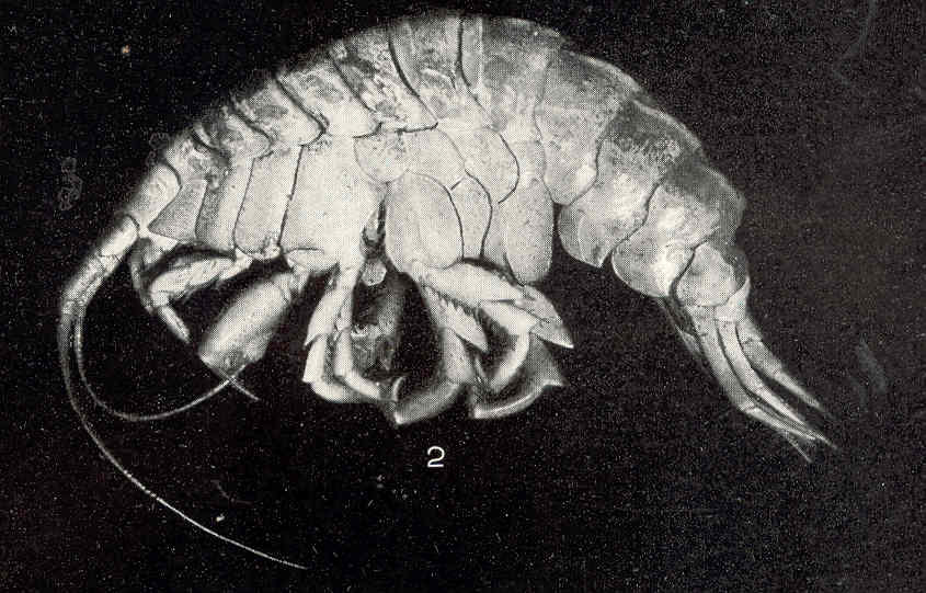 Sympleustes latipes. Grand Manan Subject: Sympleustes, Amphipoda Tag: Invertebrates